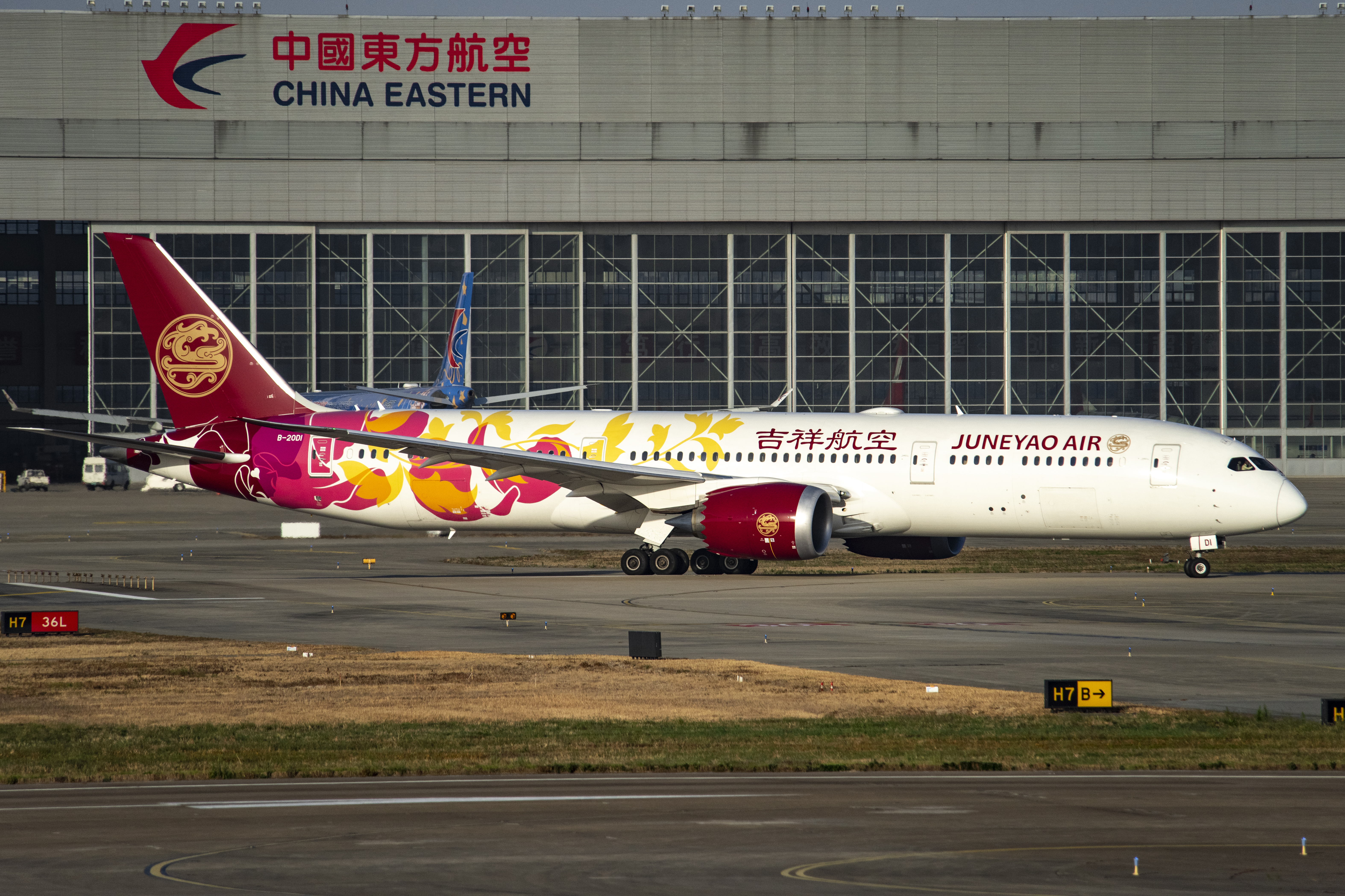 Juneyao 1111 to Shenzhen.